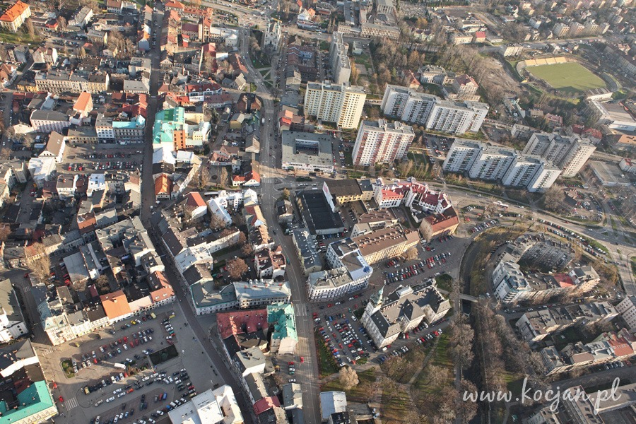 Aerial photography of Biala - historical district of Bielsko-Biała, Poland.